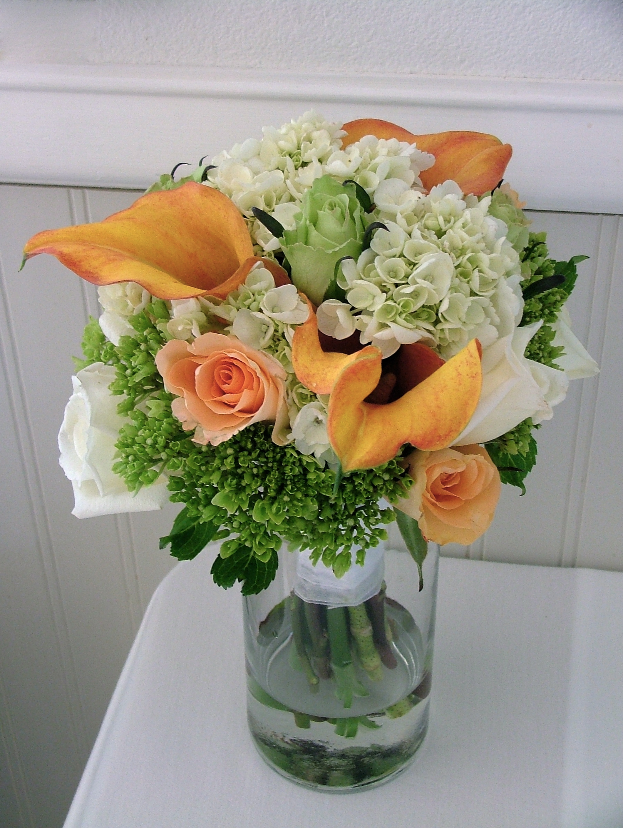 Wedding bouquet, made of white and green hydrangea, white and peach roses, and peach calla lilies.